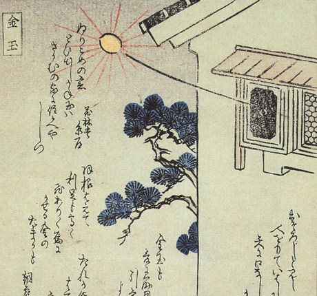 Kanedama (the spirit of money) from Kyōka Hyaku Monogatari